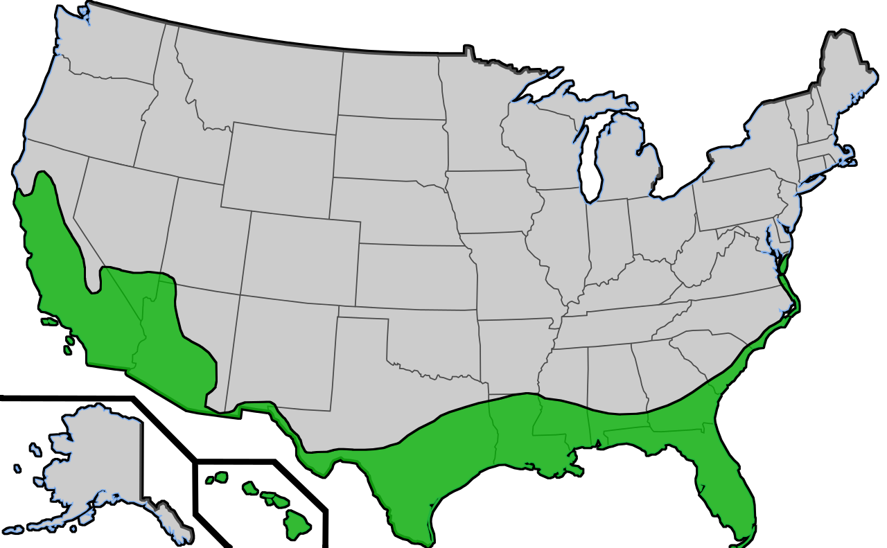 The approximate range of cultivation of Mexican Fan Palms in the US with little to no winter protection.